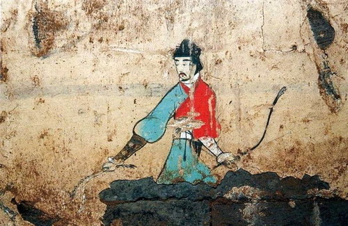 Fresco of a male figure in blue hunting dress from a Han dynasty tomb in Sian, Shensi. The tomb found in the Xi'an University of Technology. For more information see: On-site conservation of the tomb mural of the Western Han dynasty at Xi'an University of Technology, Xi'an, China (中國西安理工大學西漢壁畫墓現場修護)